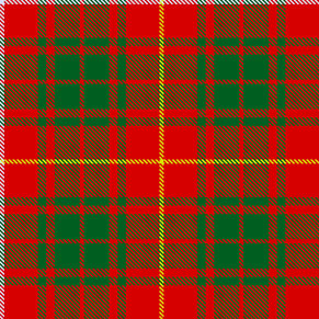 Bruce tartan. Modern thread count: W8 R56 G14 R12 G38 R10 G38 R12 G14 R56 Y8.